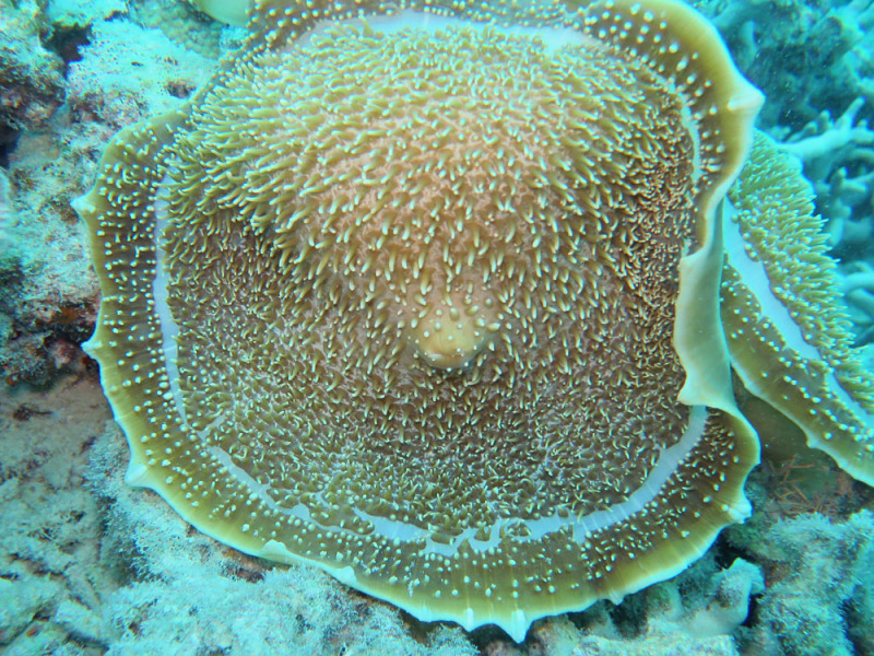 Oral disc of Amplexidiscus fenestrafer, about 25 cm diameter, at the lagoon bommie, Lizard Island